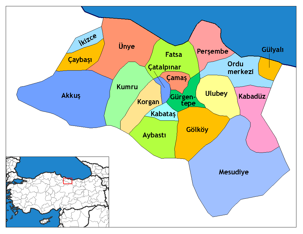 Map of the districts of Ordu province in Turkey. Created by Rarelibra 16:39, 4 December 2006 (UTC) for public domain use, using MapInfo Professional v8.5 and various mapping resources. Edited by One Homo Sapiens Corrected text where İ,Ş,ı,ğ,or ş occurs in name. Source: [statoids-com]. Increased font size and enhanced color differences among adjacent districts.